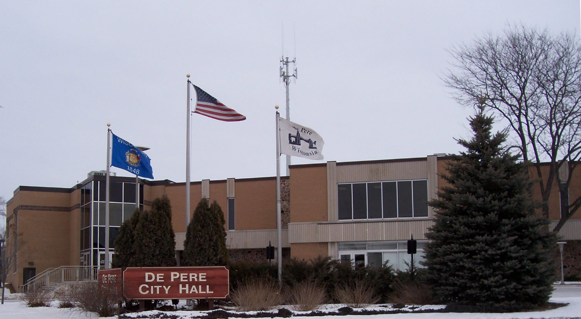 Looking north at the city hall for De Pere, Wisconsin, USA. Taken February 11, 2007 by myself. Cropped from original.